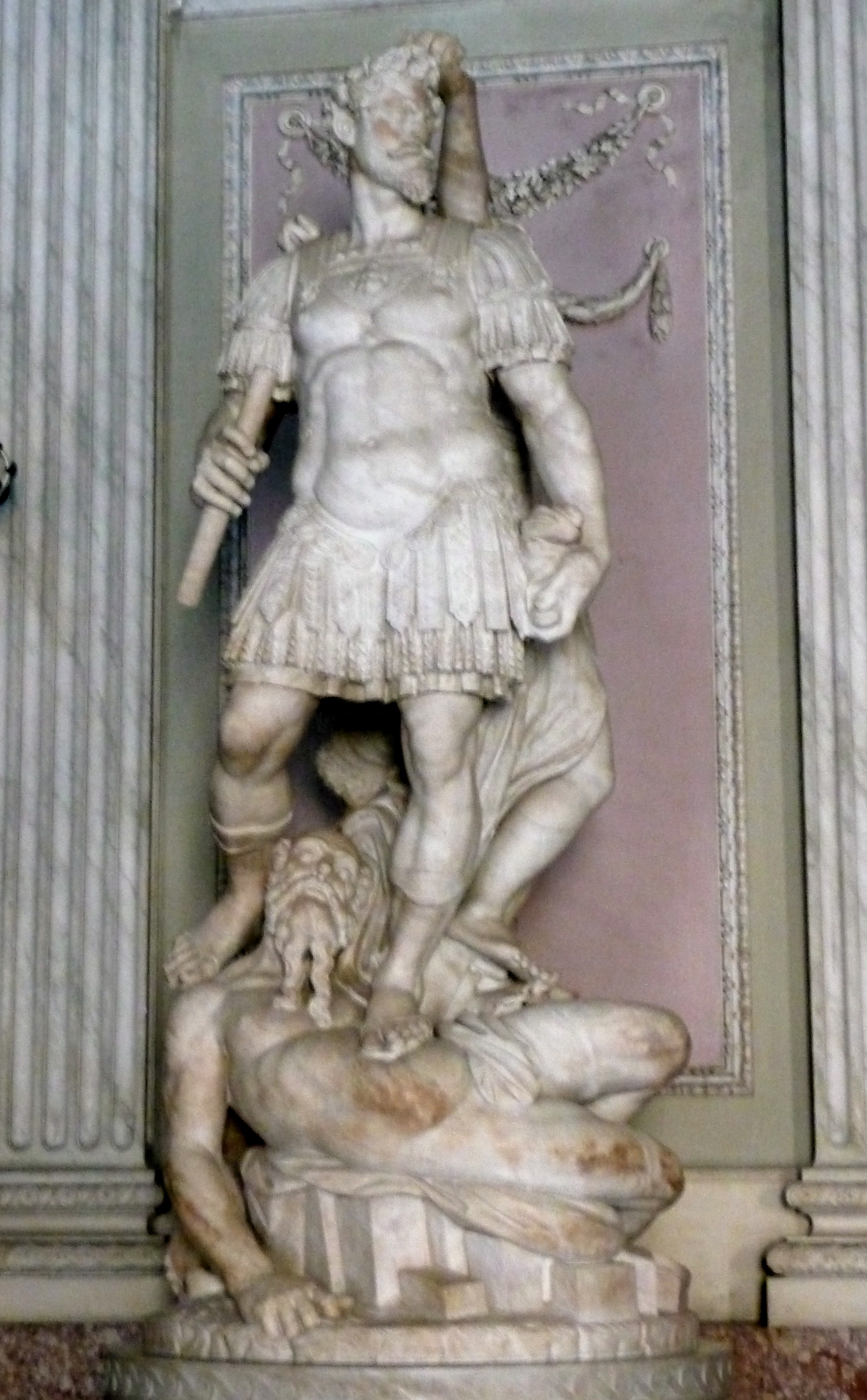 The Reggia of Caserta.